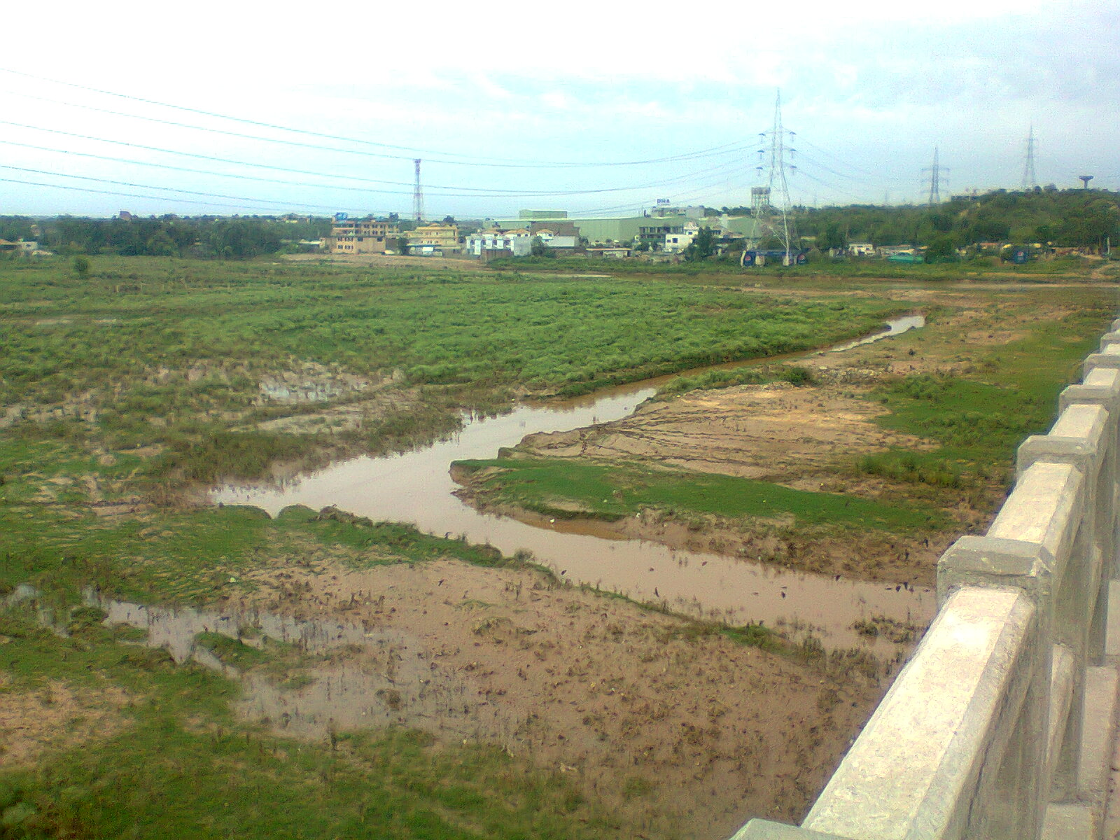 Soan river flood at the Kak Pul (bridge), Gagri, Pakistan